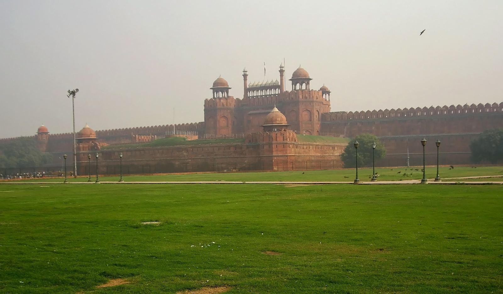 Diwan-i Khas, Red Fort, Delhi, India